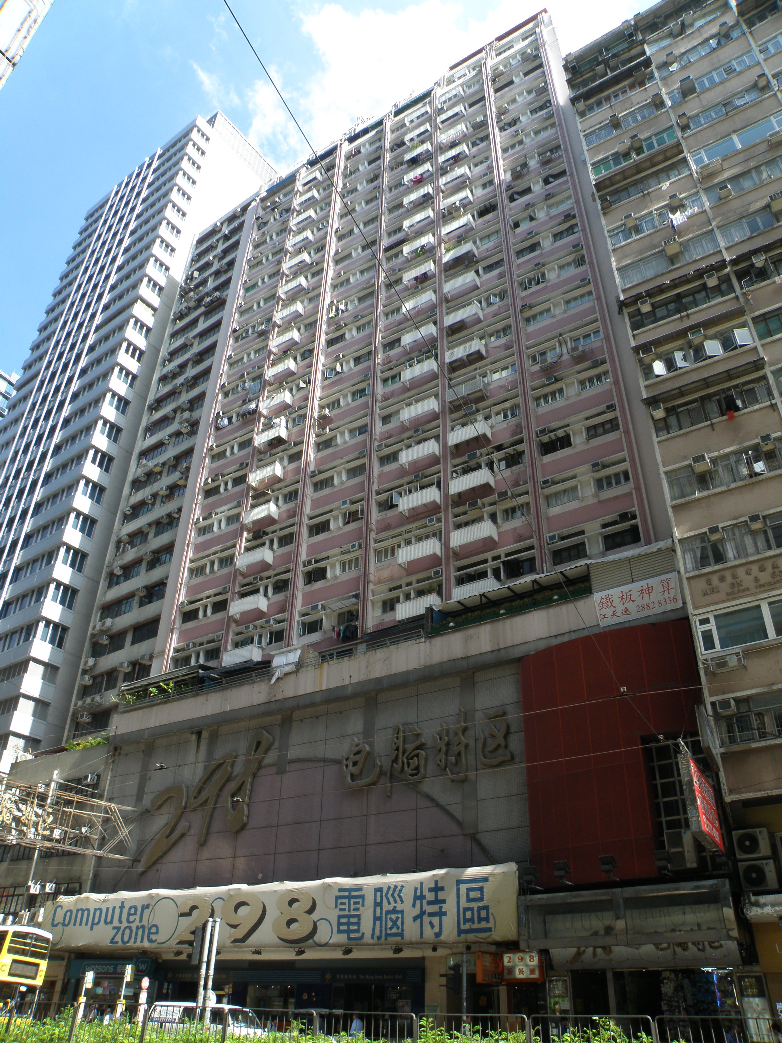 Block A of Kwong Sang Hong Building, Wan Chai, Hong Kong.